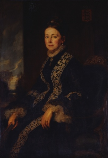 Louise, Queen of Denmark (1817-1898)